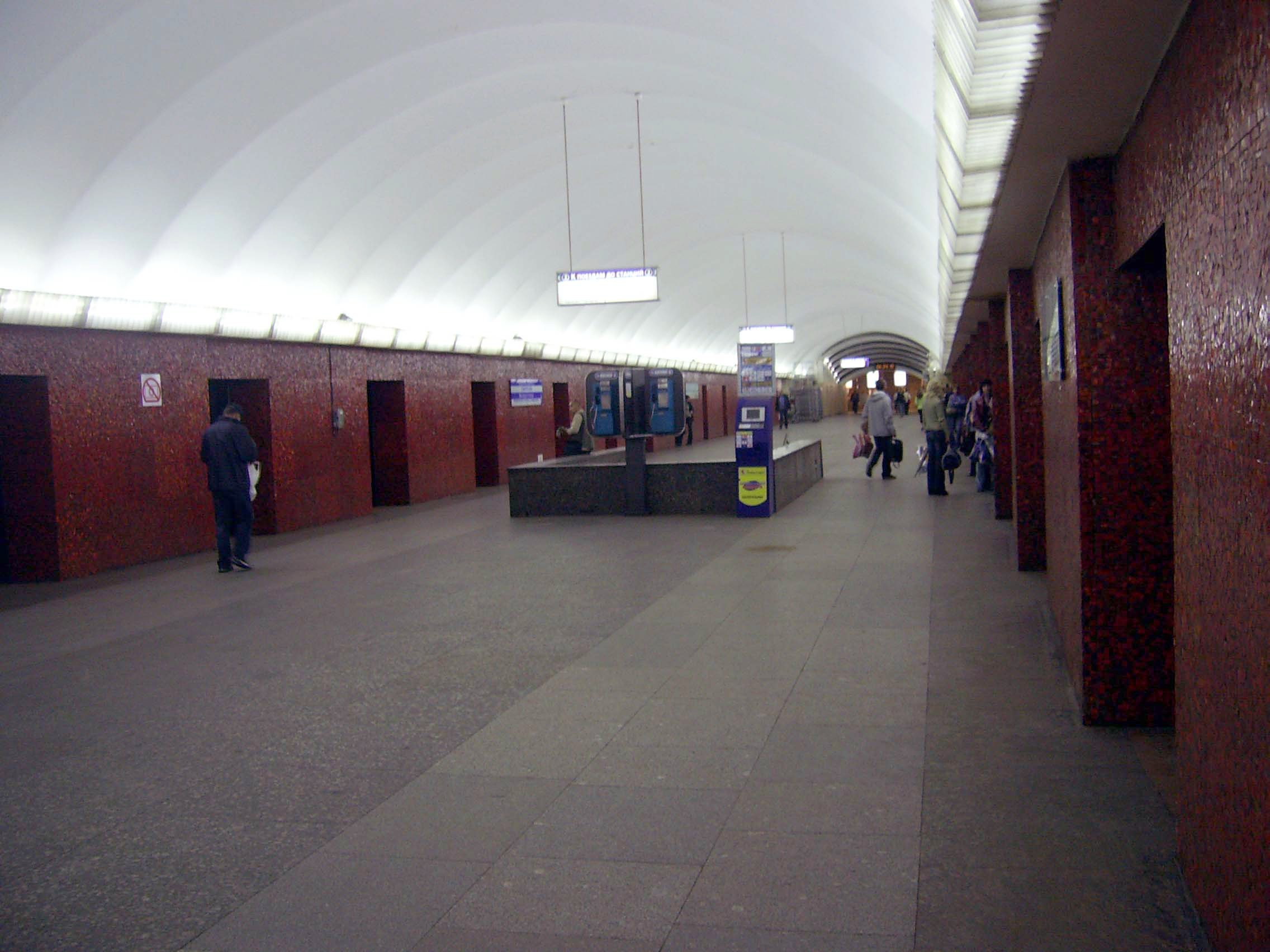 Metro Station Maykovskaya in S-Petersburg, color balance corrected